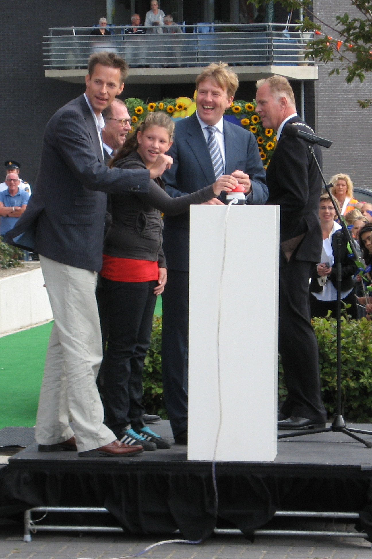 Prince Willem Alexander opens Stad van de Zon